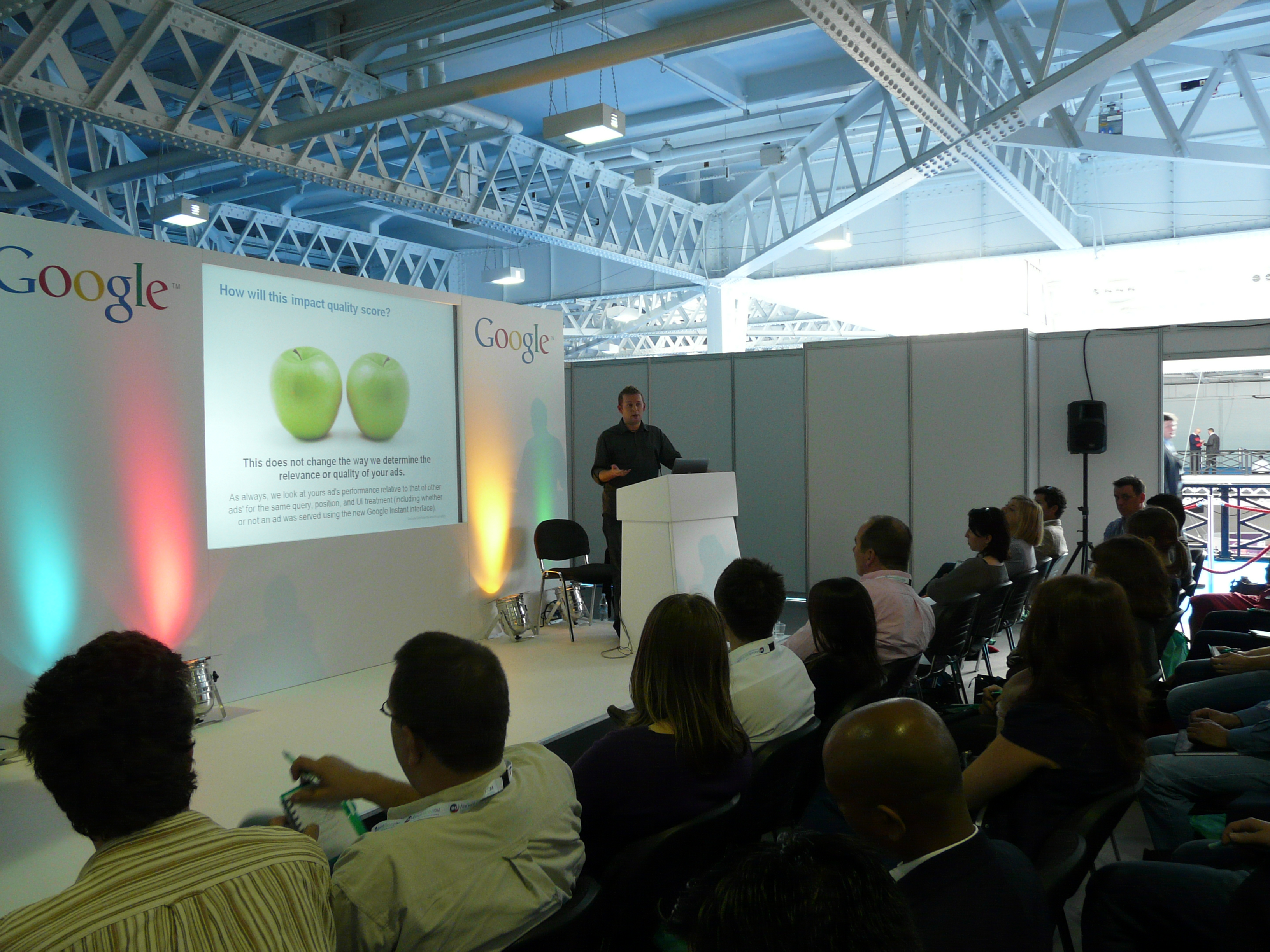 Live on the 21st of September, 2010, ad:tech, London (at Olympia). This was the sixth year in the UK for the online marketing and advertising community to gather at ad:tech London to reveal the latest trends and market figures, share best practices and address industry challenges. ©© Published under Creative Commons in the Metapolisz DVD line. All of the photos and vids in the Metapolisz DVD line are under Creative Commons and can be used even for commercial – for profit – purposes. Recommended Citation Derzsi Elekes Andor: Metapolisz DVD line